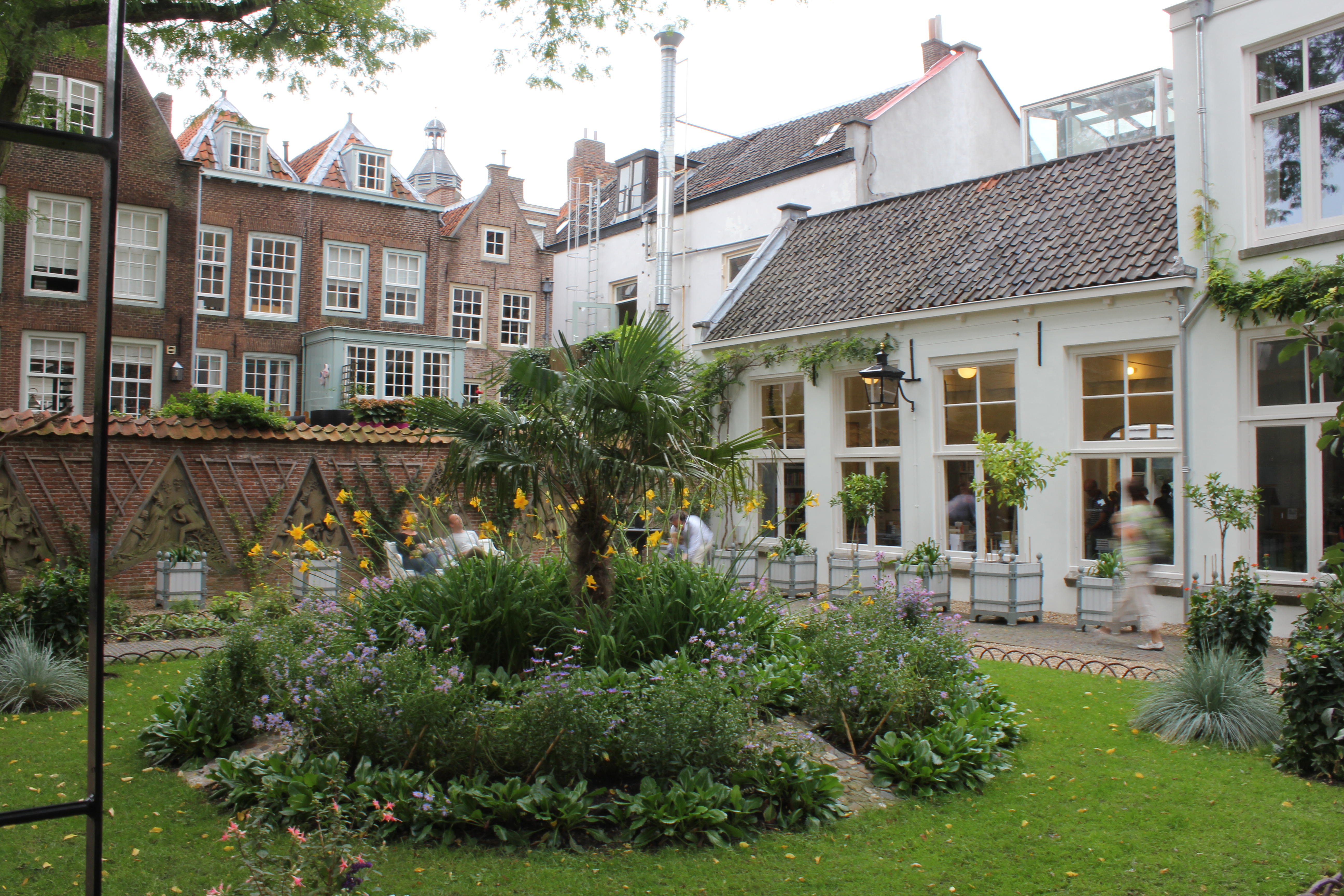 Servetstraat 3 in Utrecht.